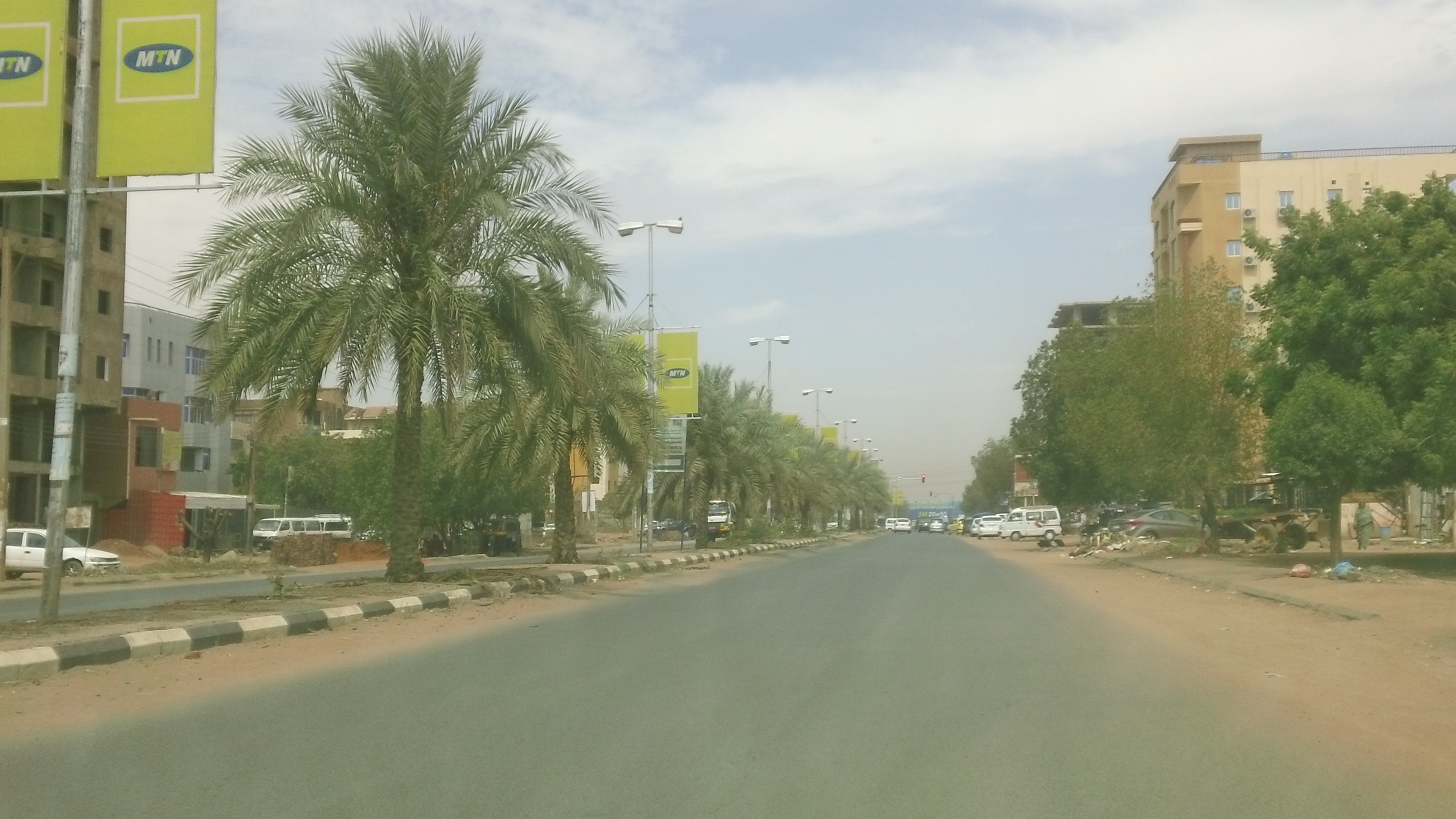 Sudan - Khartoum - Altaib Salih Street or (Omak Street)